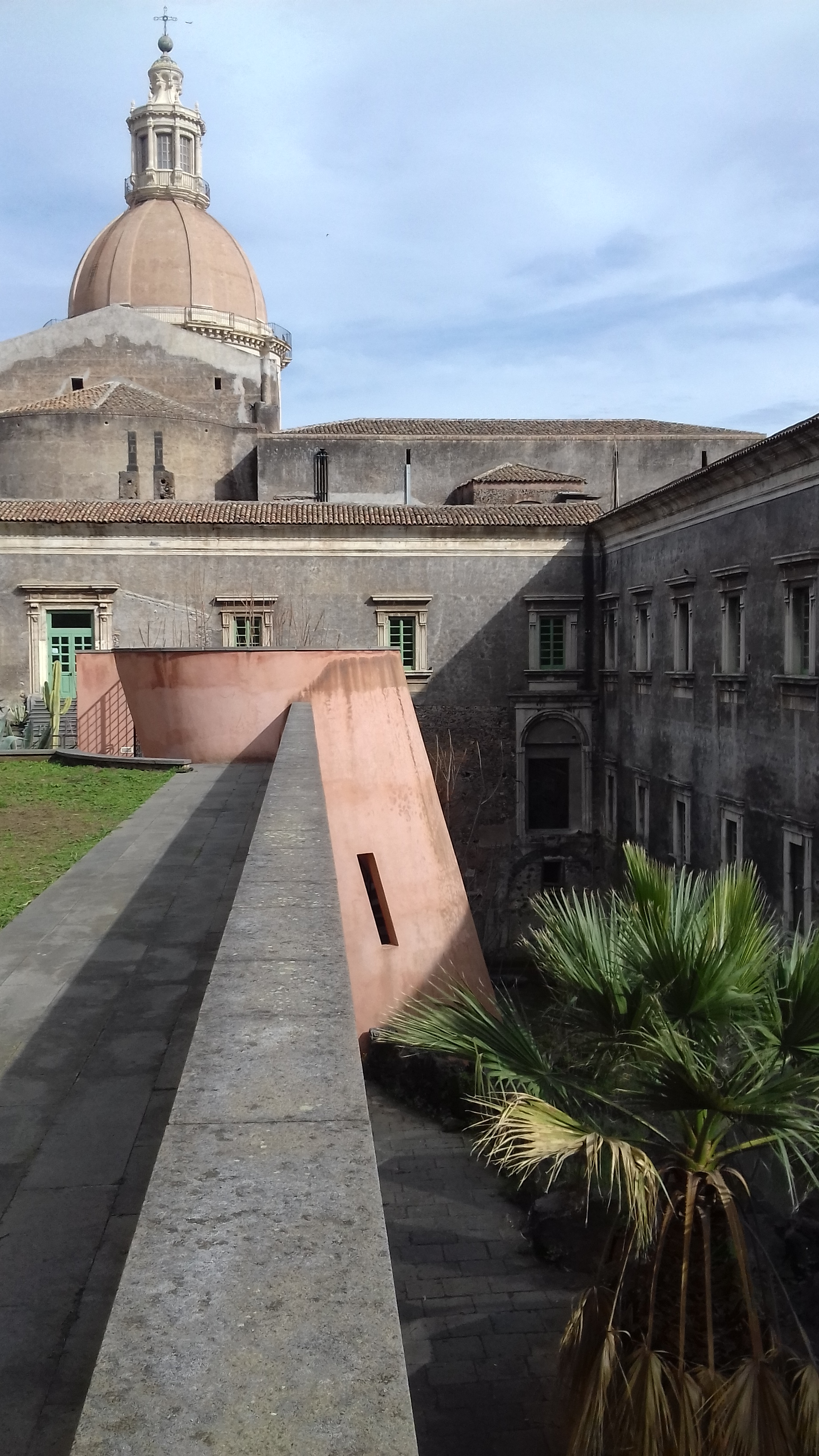 Giardino dei Novizi and roof of Heating Plant at the University of Catania designed by architect Giancarlo De Carlo